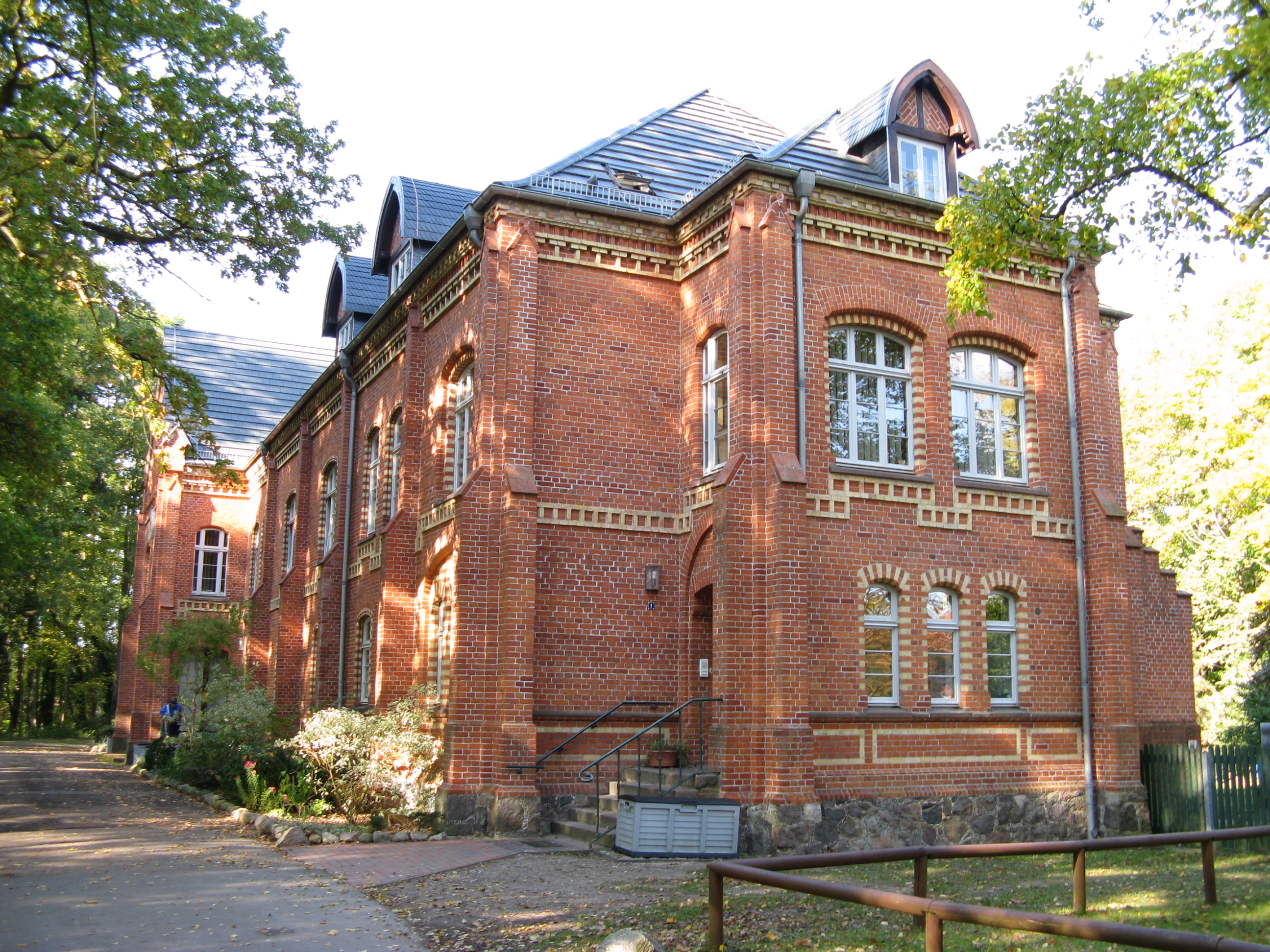 Ladies house 1 in the Monastery Dobbertin, disctrict Parchim, Mecklenburg-Vorpommern, Germany